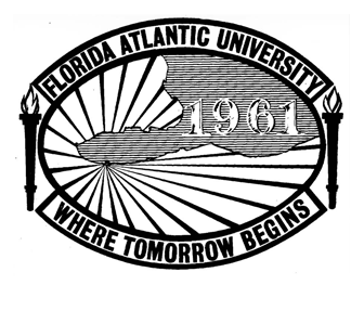 Old logo for Florida Atlantic University